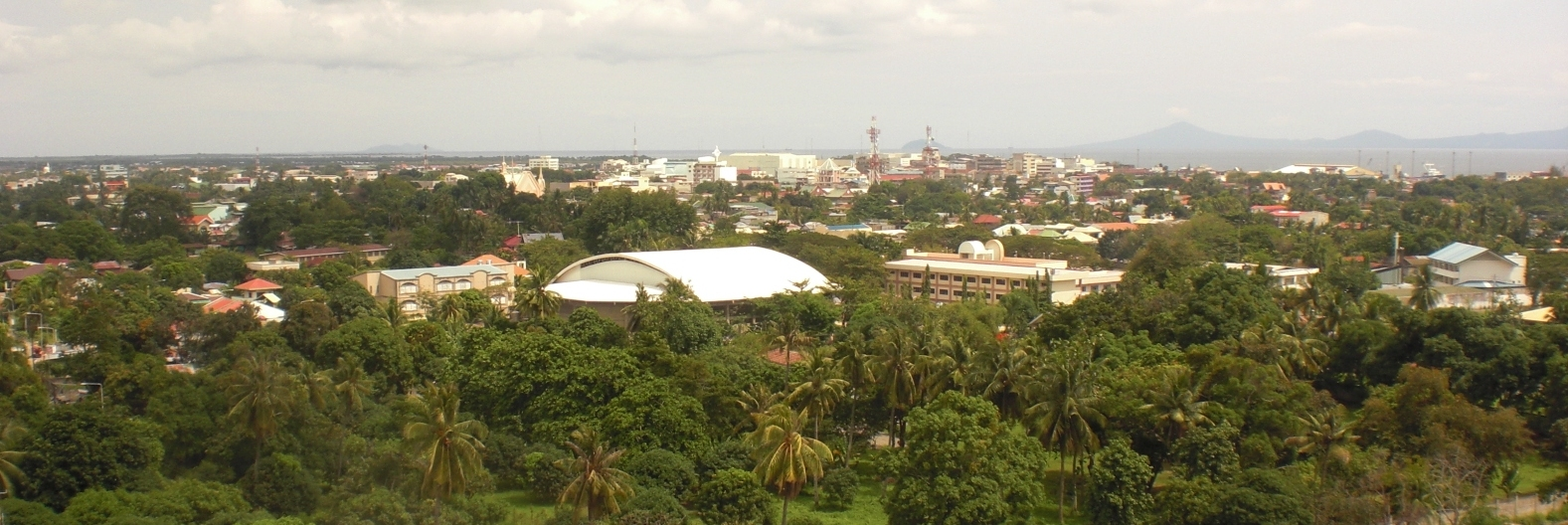 View of Zamboanga City, Philippines, from the top of Garden Orchid Hotel